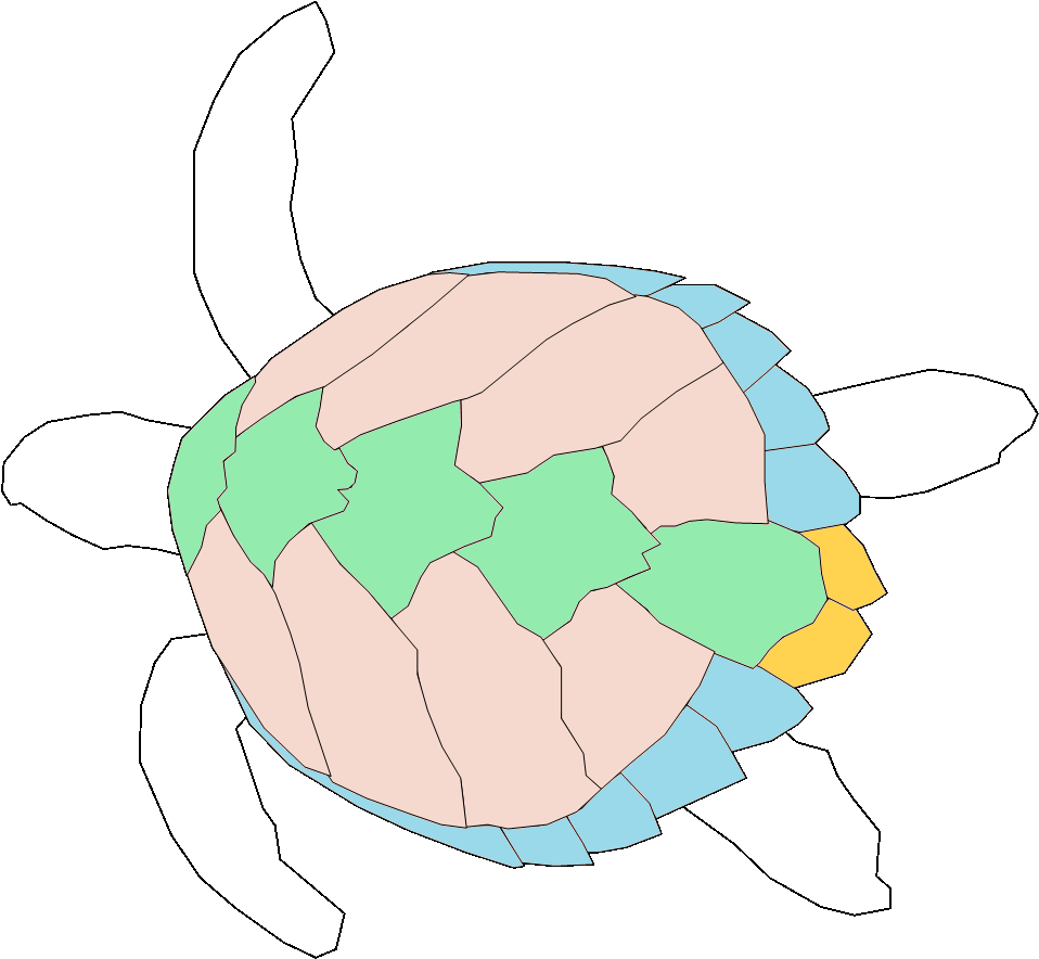 Coloured schemes of the shell scutes of Eretmochelys imbricata.